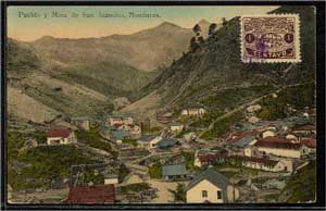 A postcard depicting Barrio El Centro of San Juancito, Honduras during the 1920's.